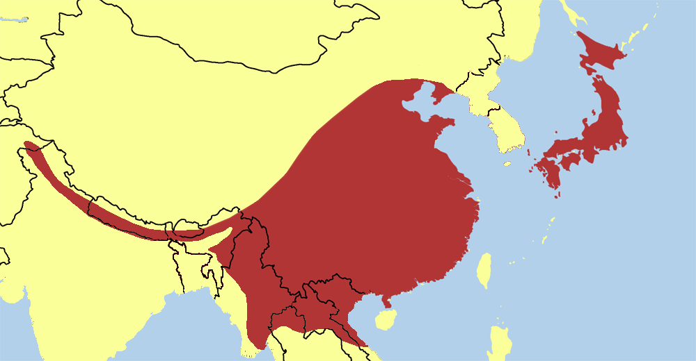 Distribution of the Crested kingfisher (inaccurate in the west and east, as should follow the Himalayas, and is absent from South Korea)